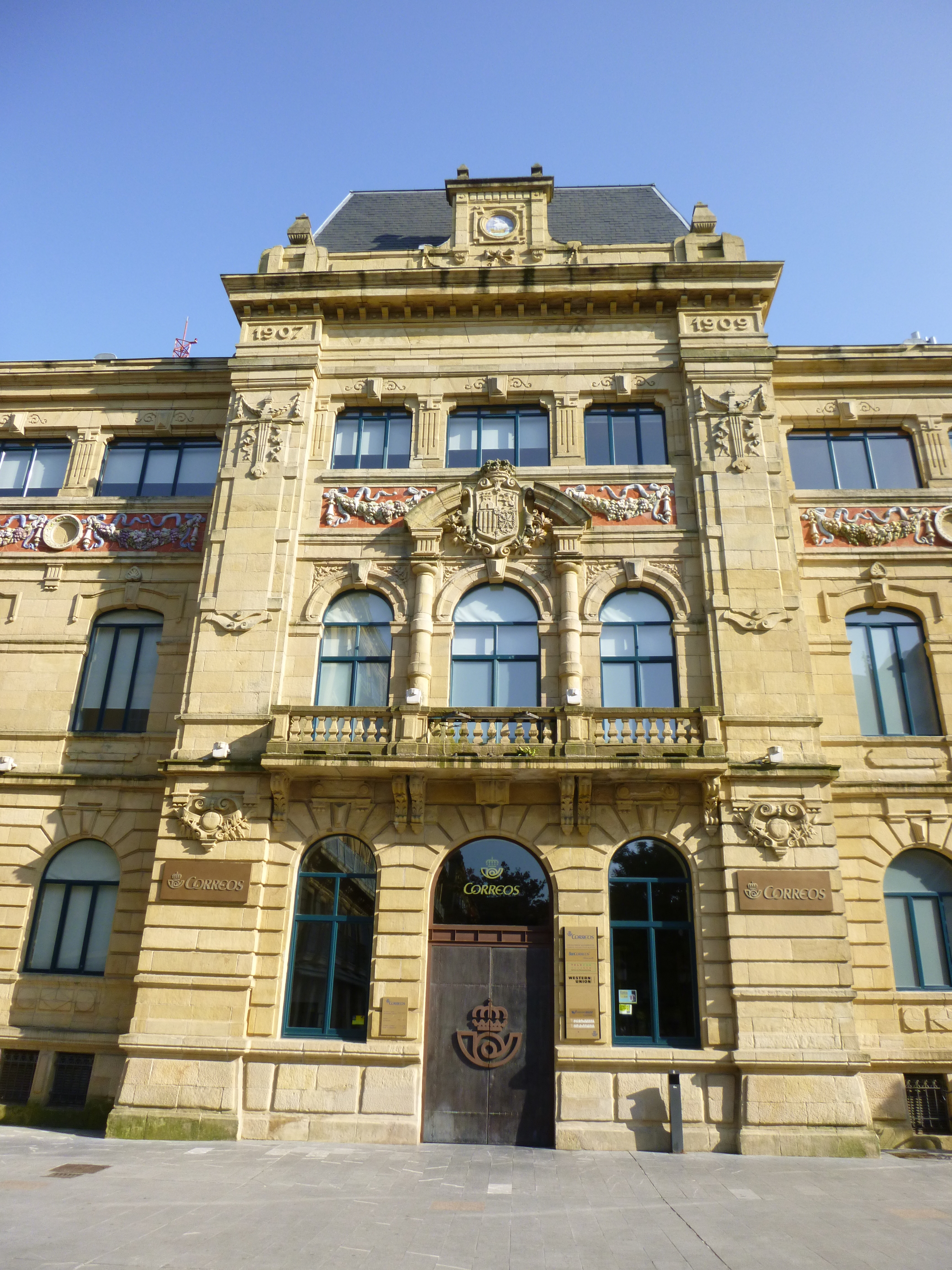 Main post office in Urdaneta street